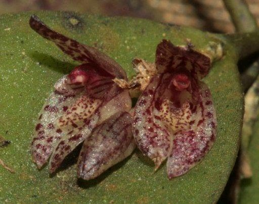 Acianthera enianthera